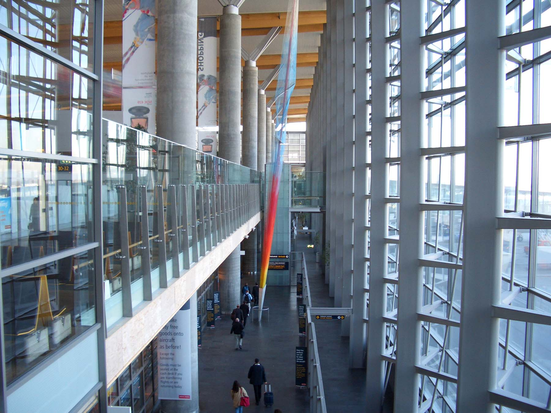 Oslo Airport; Before entrance to the beggage reclaim hall